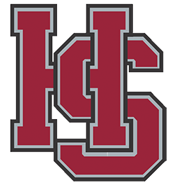 Logo of the Hampden–Sydney Tigers football team. Hampden–Sydney College is located in Hampden Sydney, Virginia, United States.